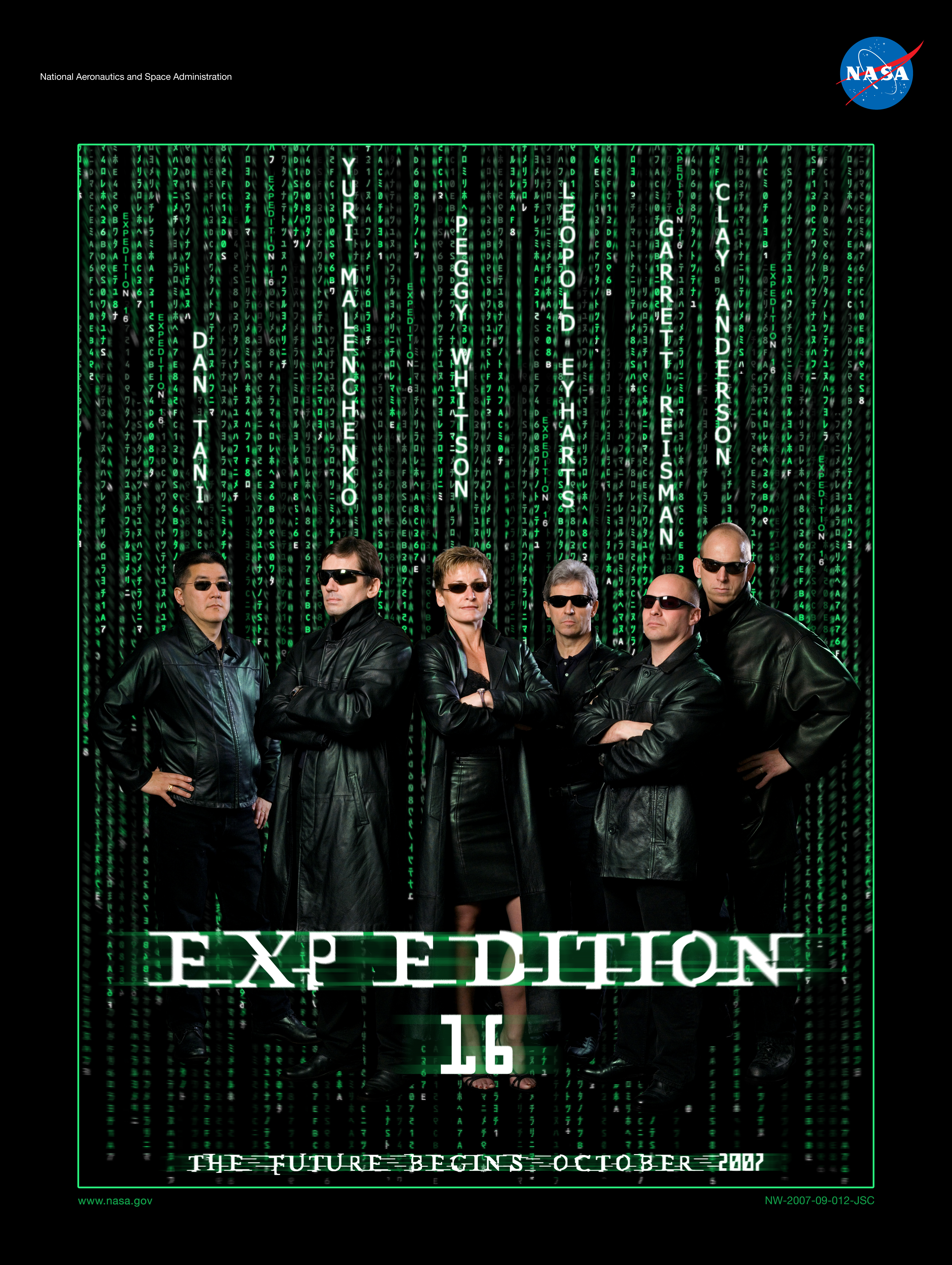 Expedition 16 "The Matrix" NASA Space Flight Awareness crew poster